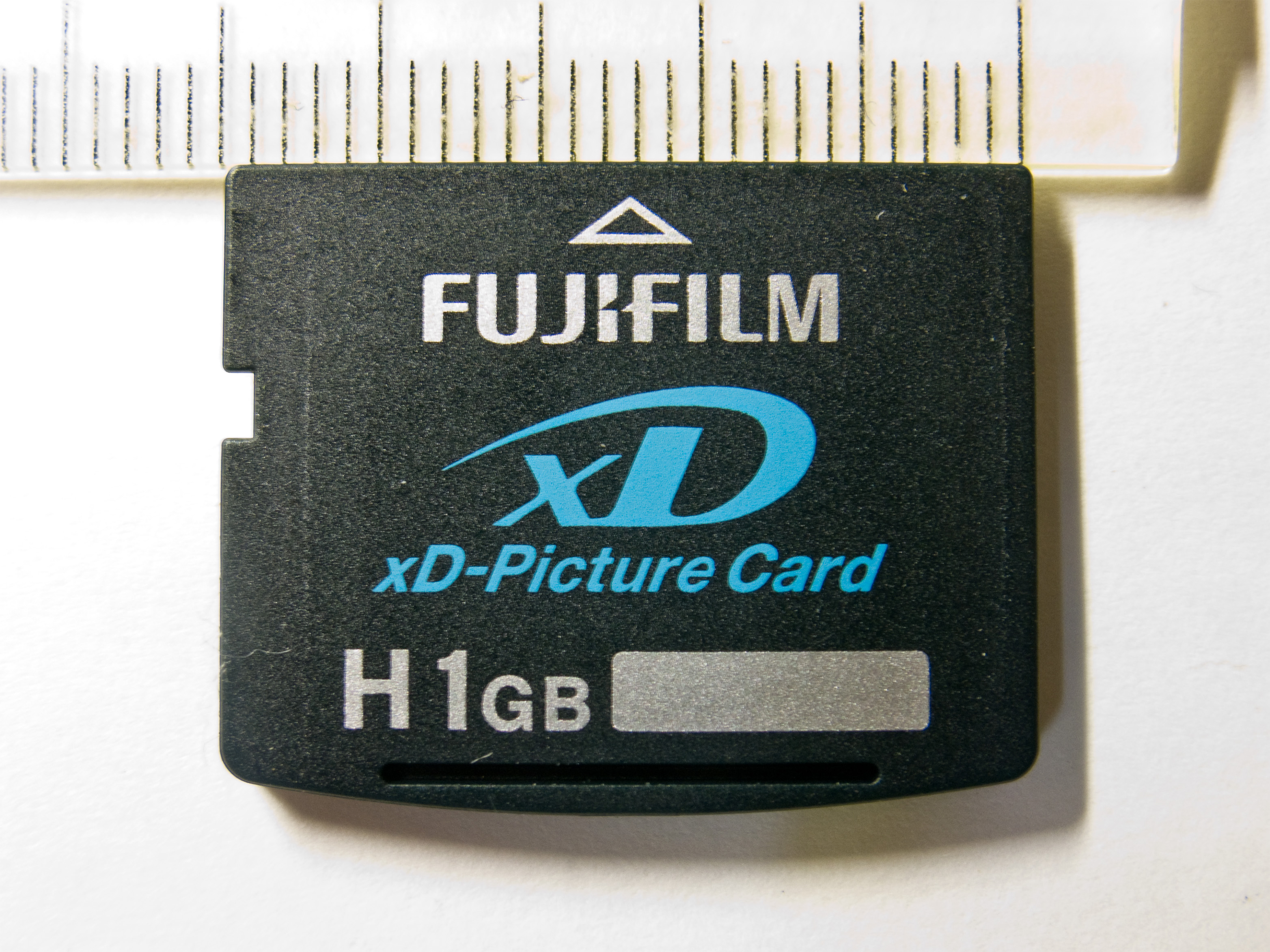 xD-Picture Card TypeH, 1GB, front (Fujifilm)